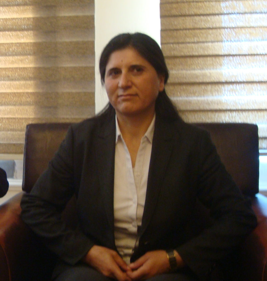 Turkish Independent MP Ahmet Türk and PYD co-chair Asya Abdullah in 2013.